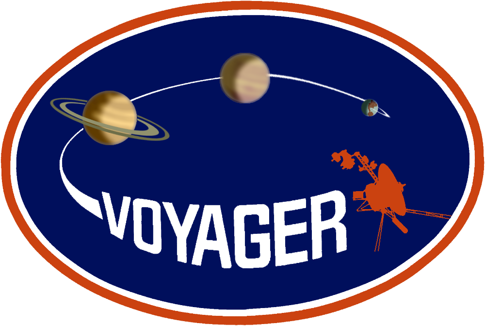 Mission logo for Voyager Program